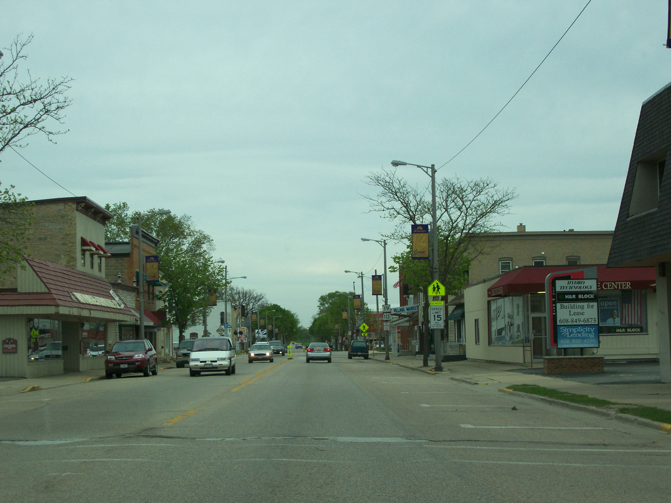 Looking east at Waunakee, Wisconsin, USA on Wisconsin Highway 19.